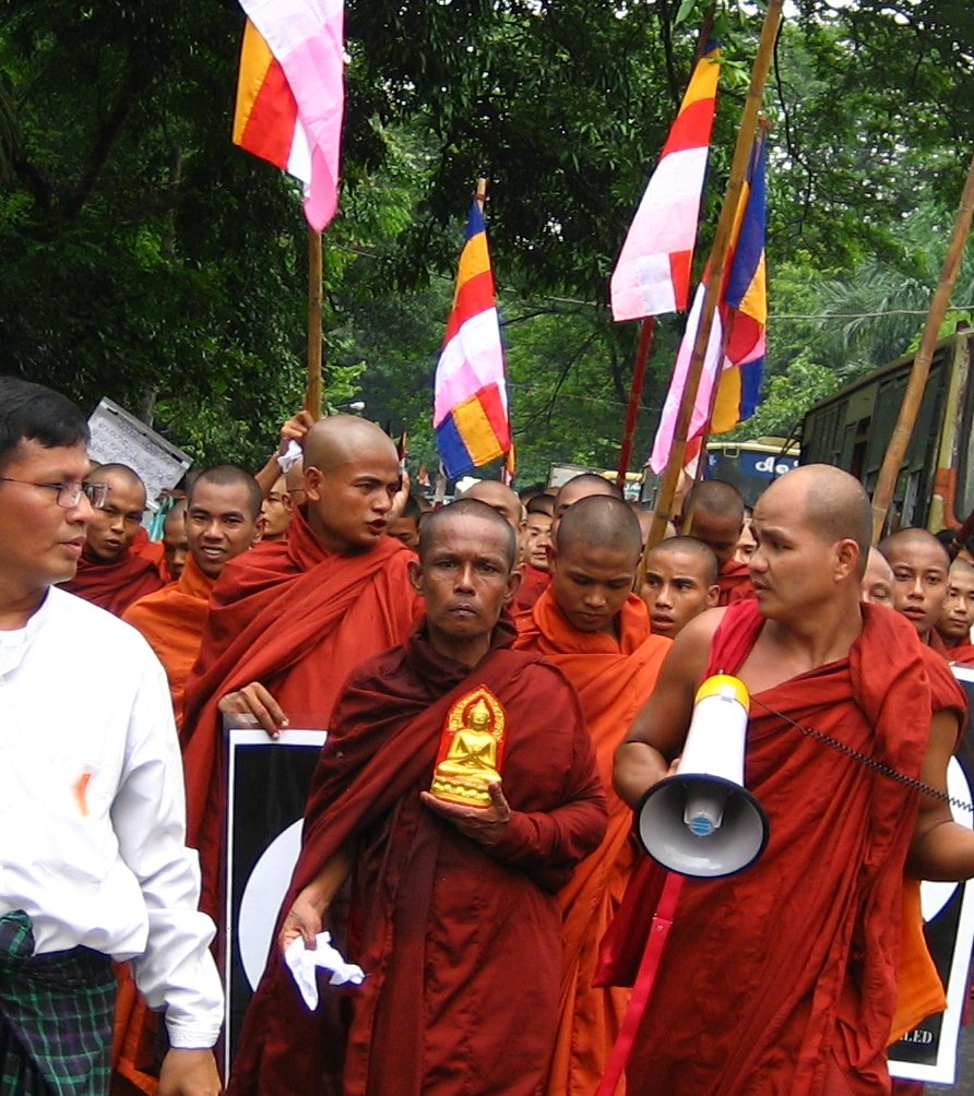 Monks Protesting in Burma (cropped version to see main monks and flags)